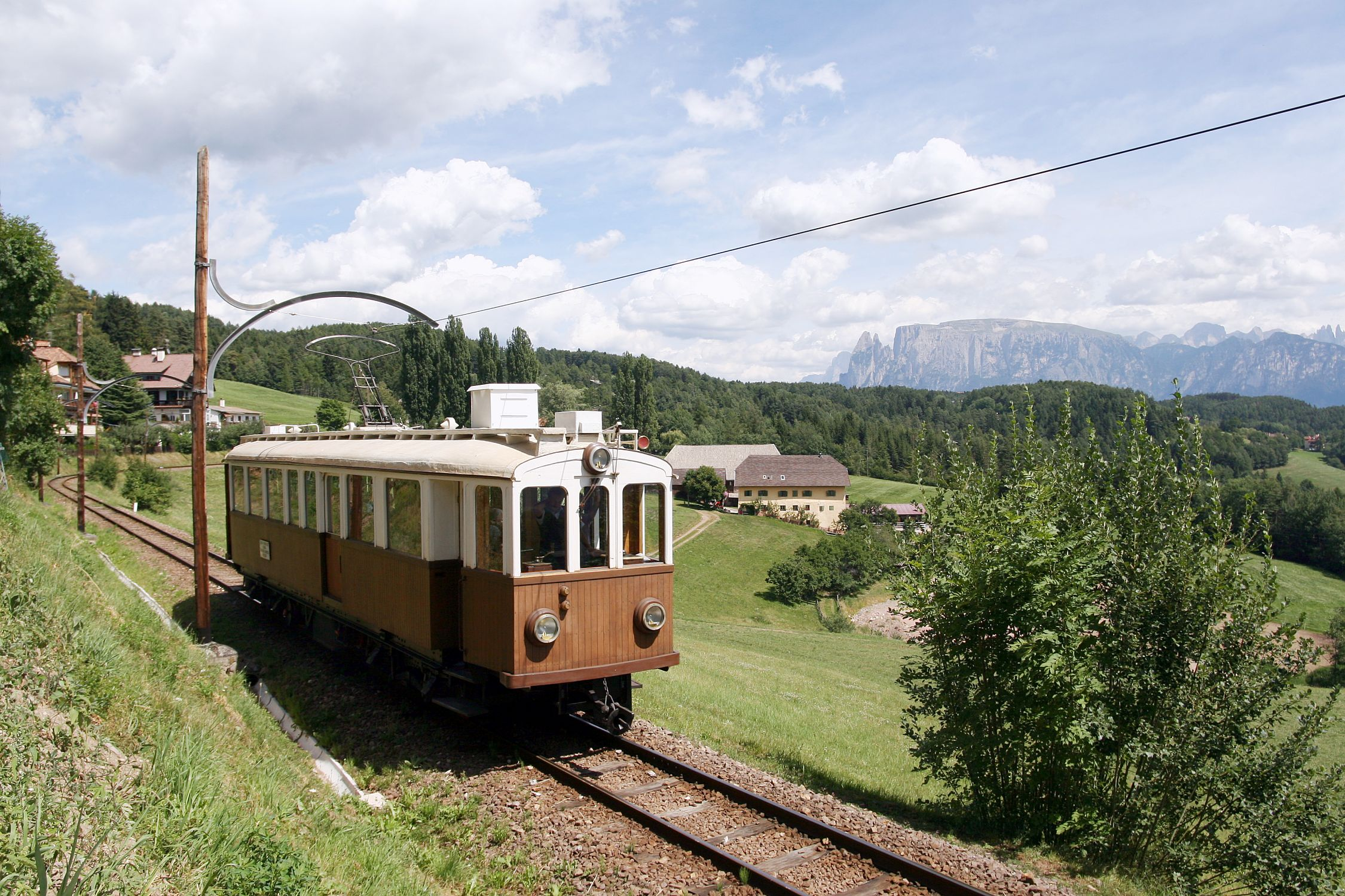 Railcar 105 of the Rittnerbahn with Dolomites panorama near Oberbozen.